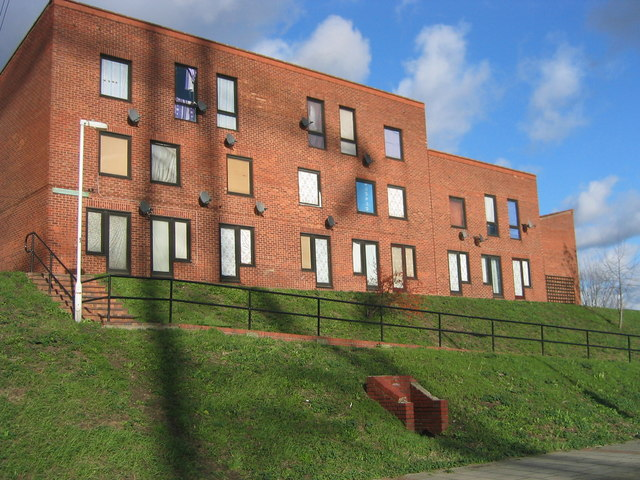 Clays Lane Community- earmarked for demolition Social housing owned by the Peabody Trust to be demolished to make way for the Velodrome and Olympic village. Protestations are active : see. and later.